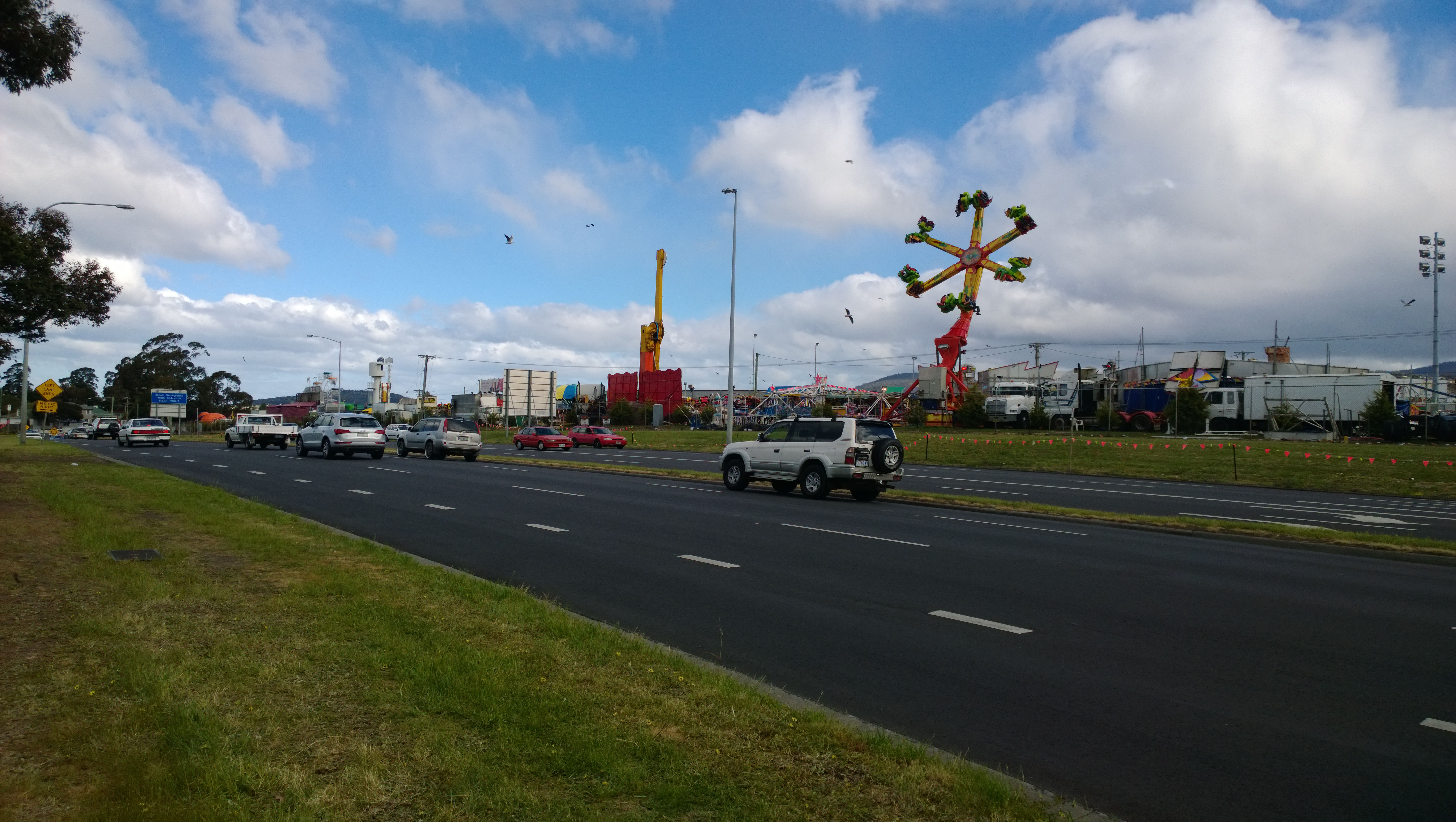 A picture of the Royal Hobart Show. Taken from the Brooker Highway .